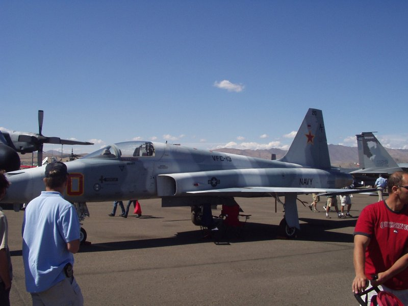 A pair of US Navy F-5N Tiger II adversary aircraft of Fighter Squadron Composite 13 (VFC-13) after landing at NAS Fallon, Nevada (USA). In the background is an Oregon National Guard McDonnell Dougals F-15 Eagle.